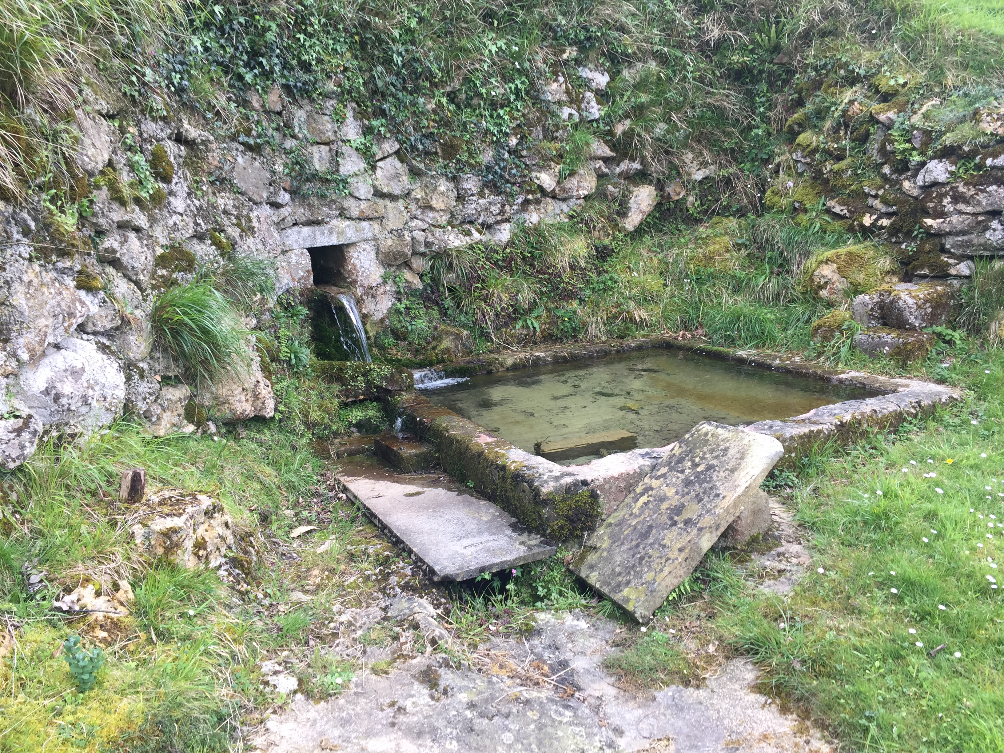 Source of Etxabeguren Berri farm in Alkzia